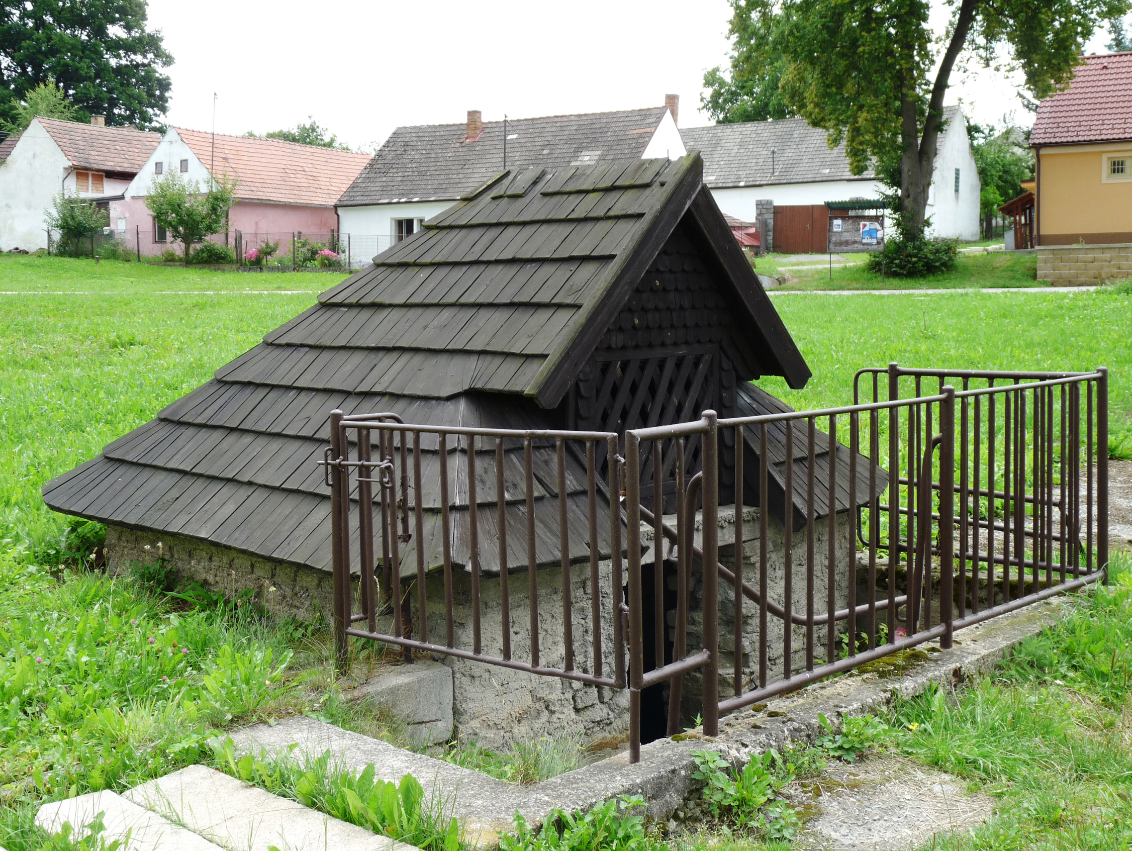 Well in the village of Otěvěk, České Budějovice District, Czech Republic.